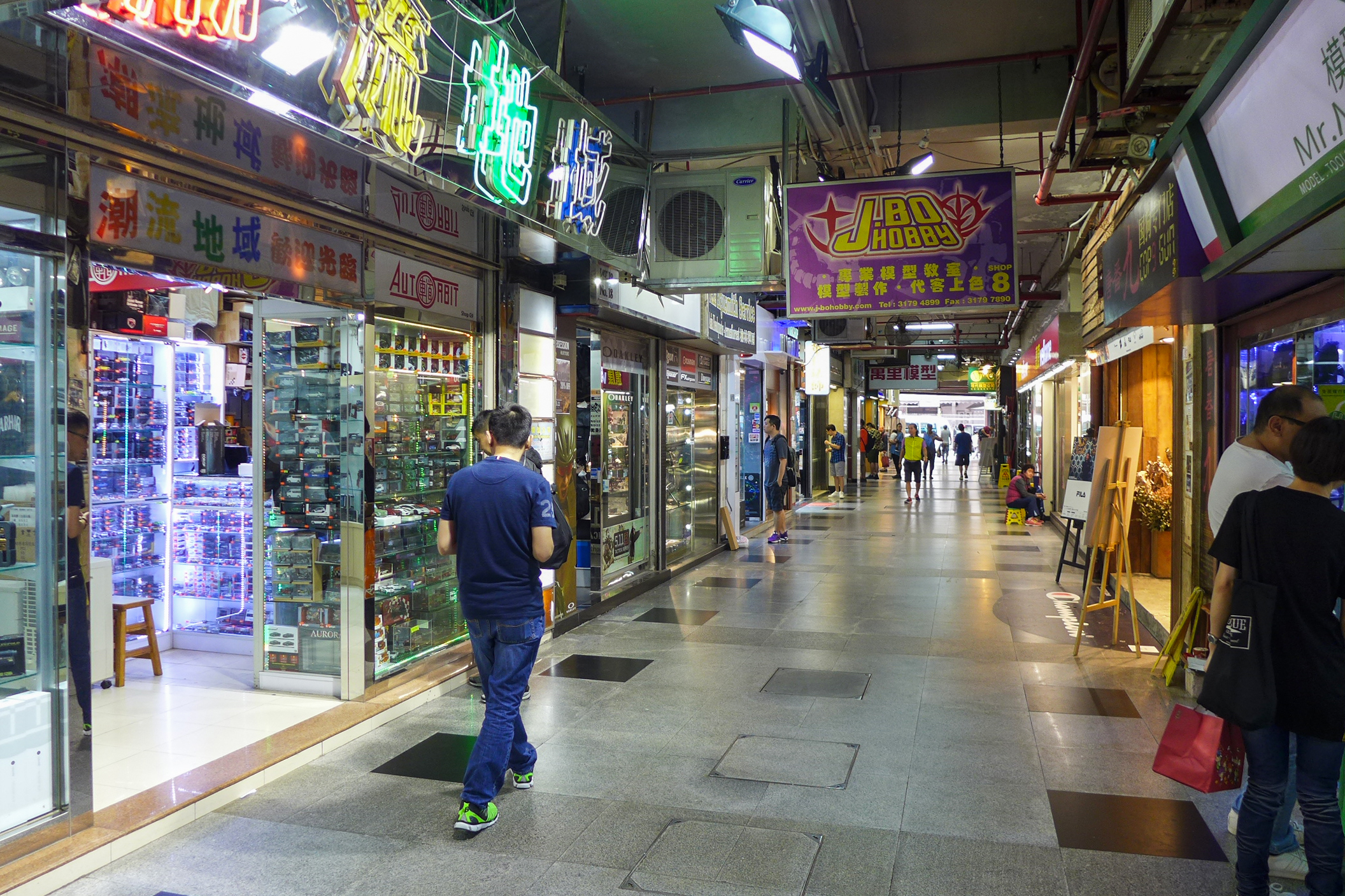 Yan On Building Shops